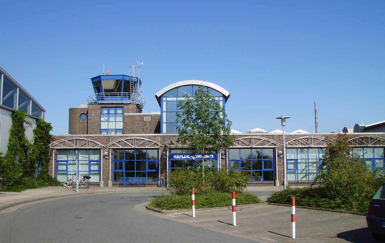 Entrance hall of the airfield Bremerhaven-Luneort